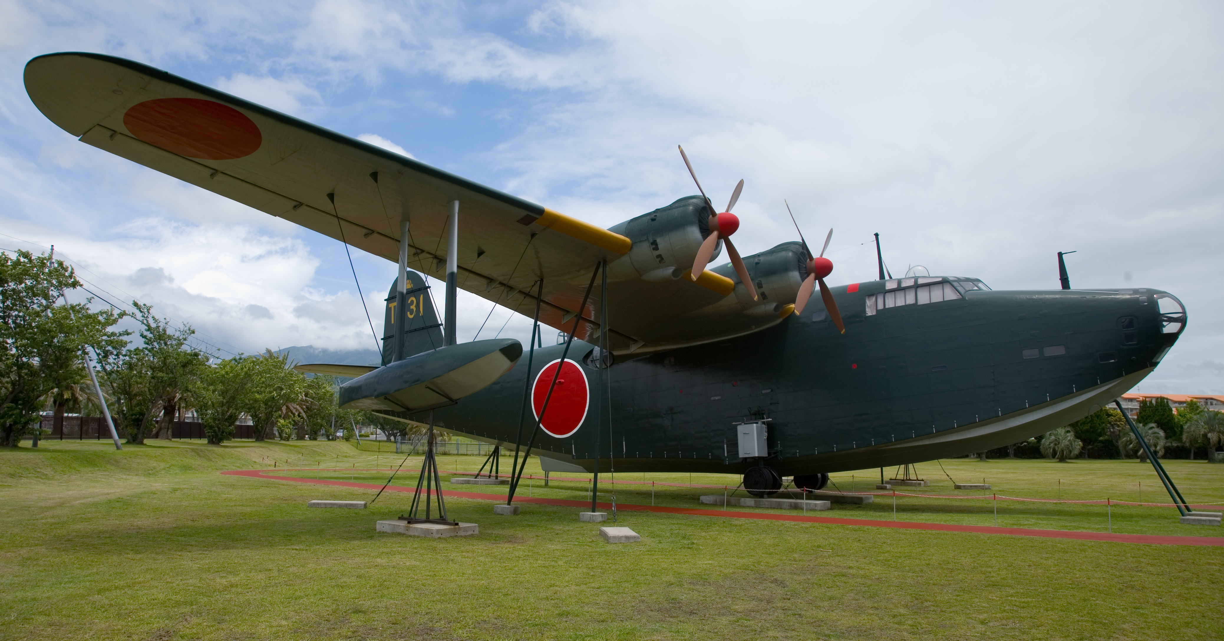 A Kawanishi H8K2 Type 2 flying boat at Kanoya Museum in Japan. It was codenamed Emily by allied forces. This example is manufacture No.426.